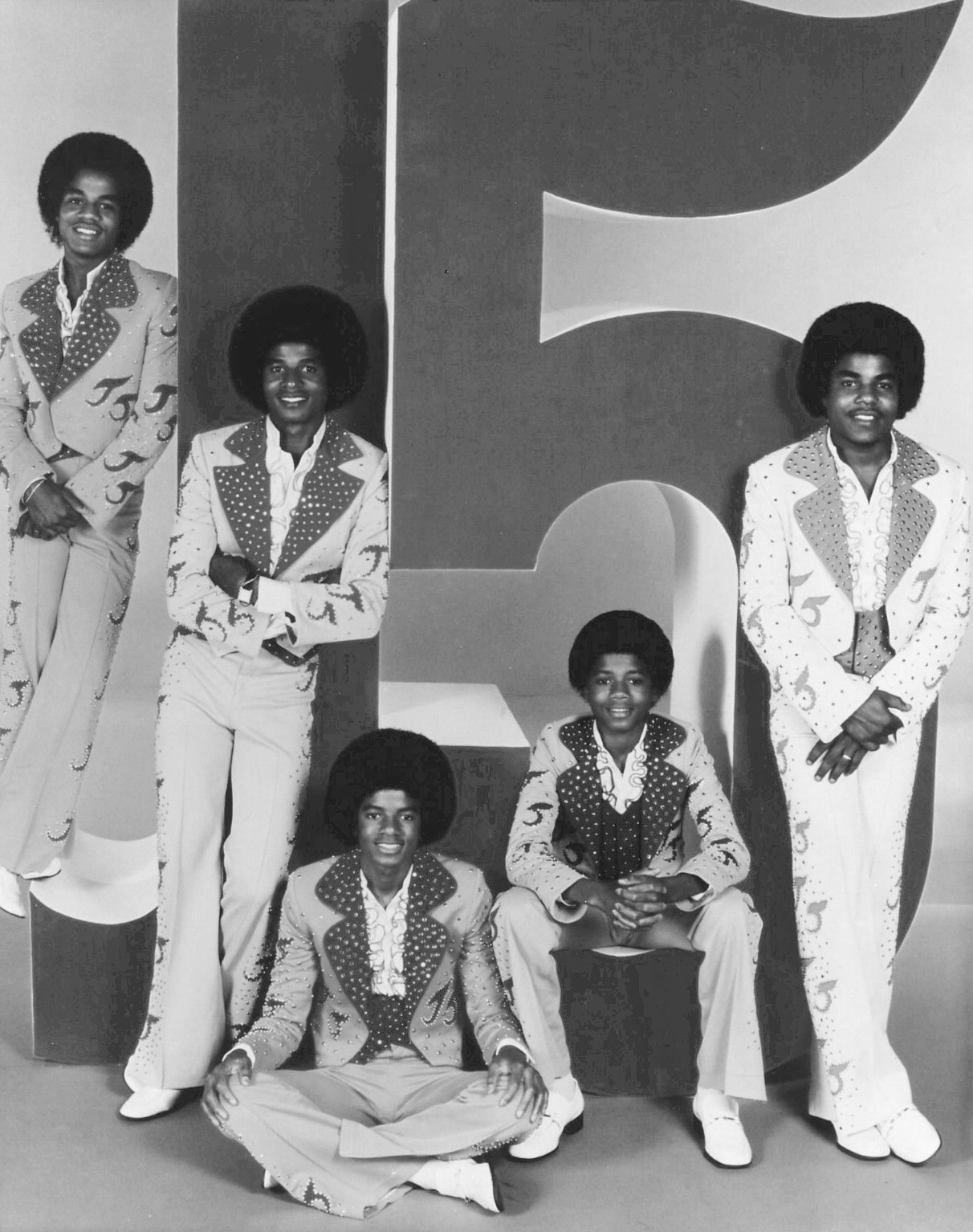 Photo of The Jacksons as they began their television show. From leeft-Marlon, Jackie, Michael, Randy and Tito.